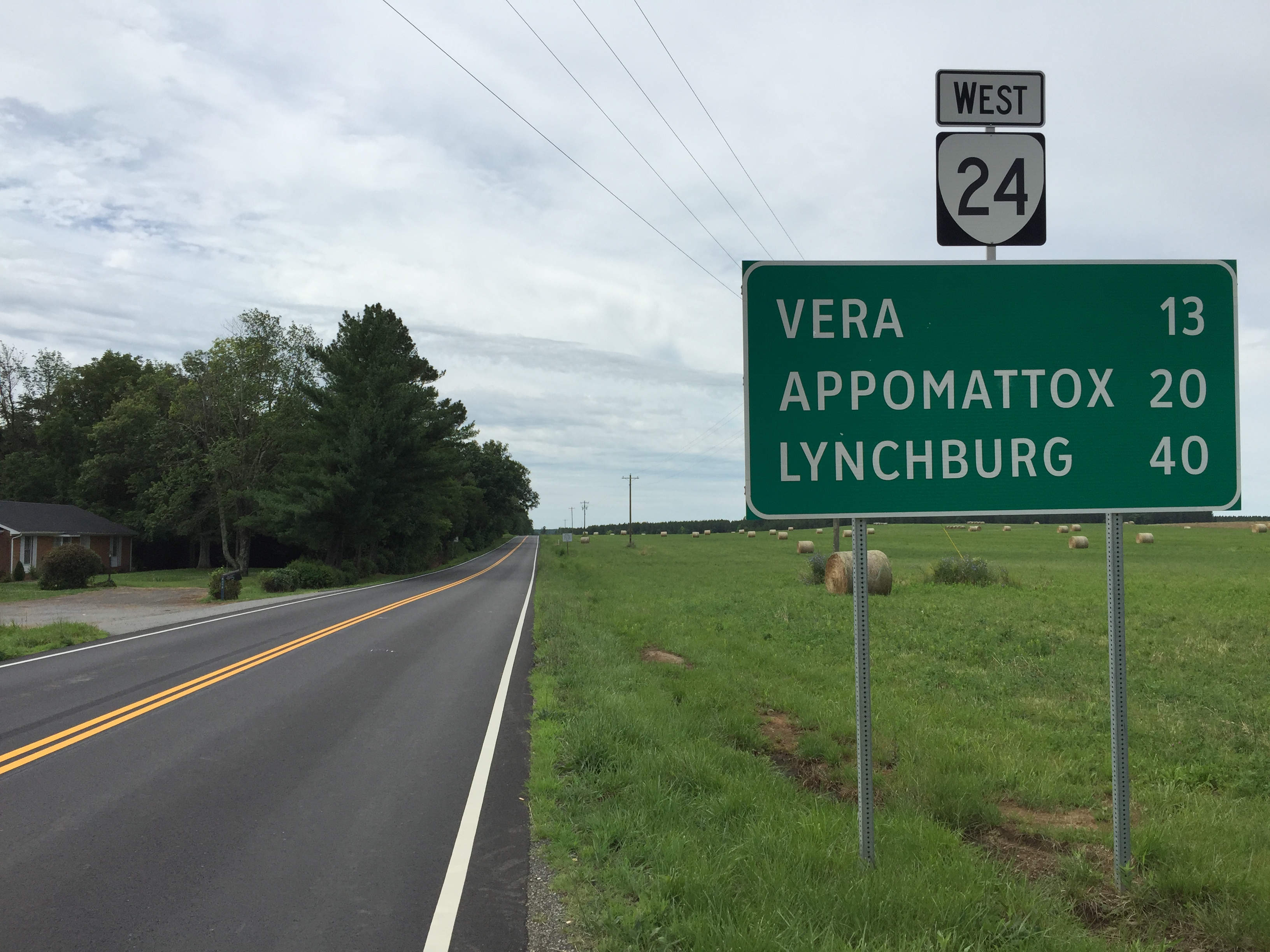 View west along Virginia State Route 24 (Mount Rush Highway) at U.S. Route 60 (W James Anderson Highway) in Mount Rush, Buckingham County, Virginia